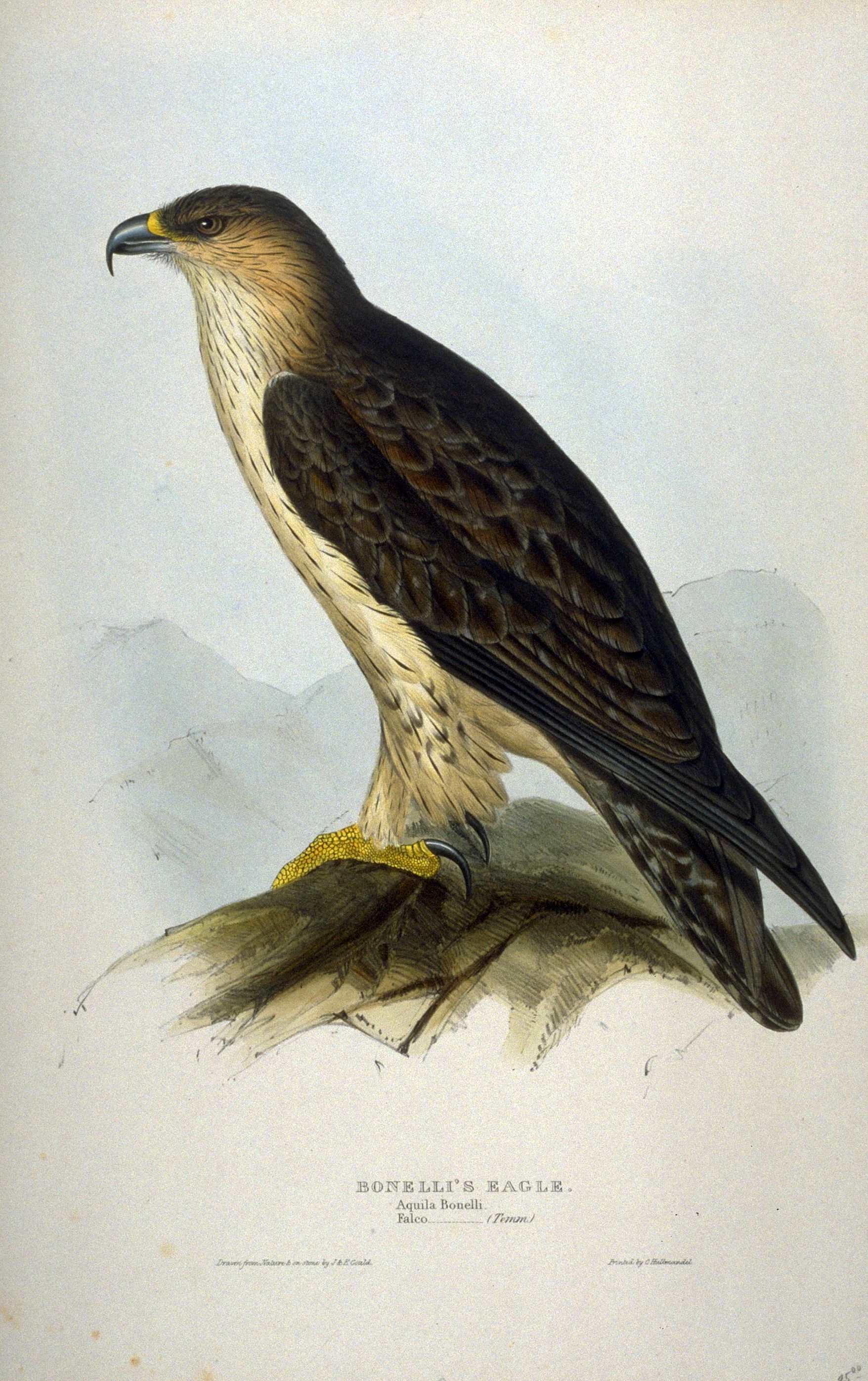 Bonelli's Eagle - Aquila bonelli (now Aquila fasciata, syn. Hieraaetus fasciatus ) - lithograph with hand coloring 40 x 32.2 cm (image); 53.6 x 35.4 cm (sheet)